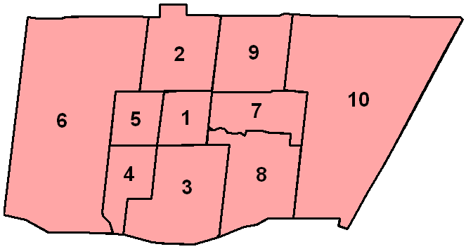 Bramptonwards